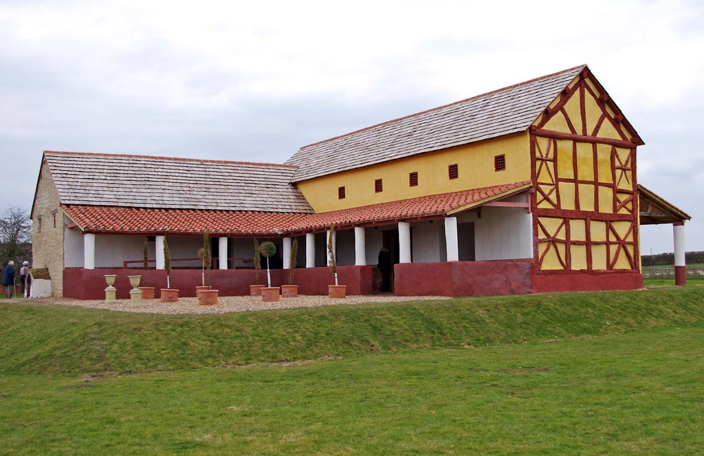 Wroxeter Roman City (15) - The replica Villa Urbana